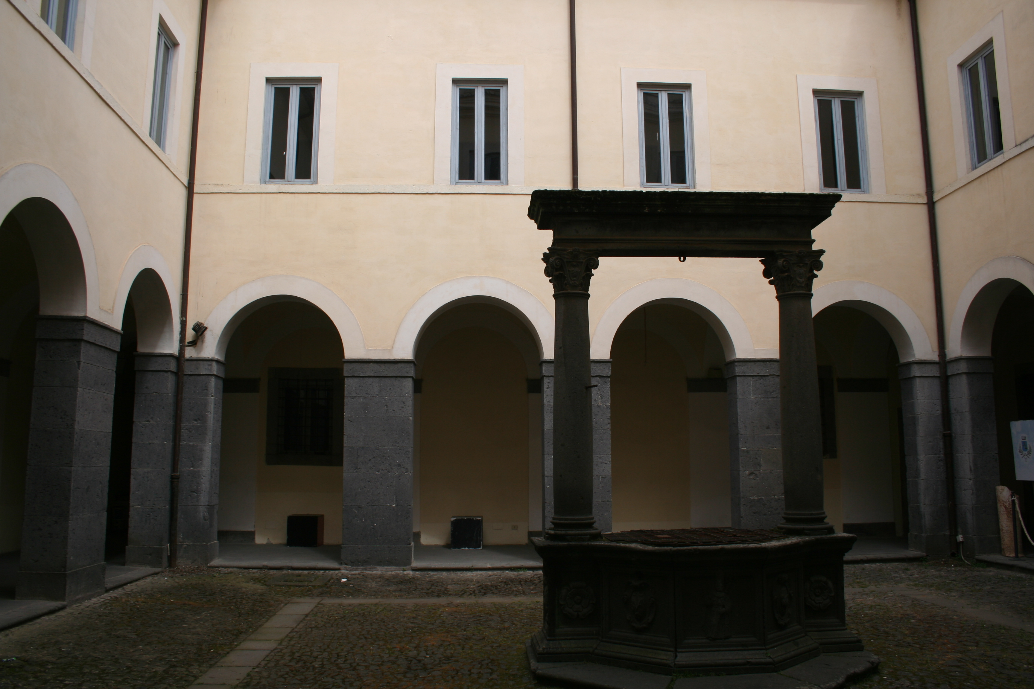 Civic Museum